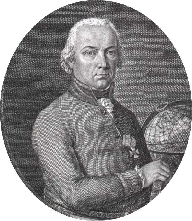 from here 10:00, 14 June 2004 Magnus Manske 642x738 (141,864 bytes) ( PD , from [ here])